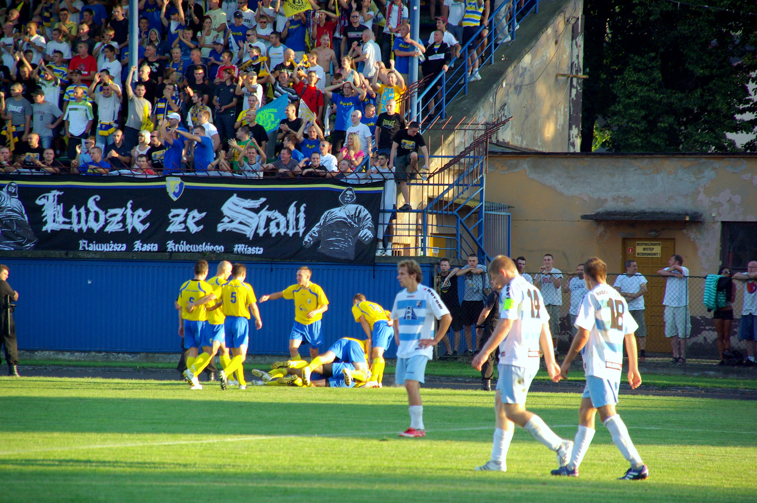 Derby Stal Sanok vs. Karpaty Krosno 2010 August, 21